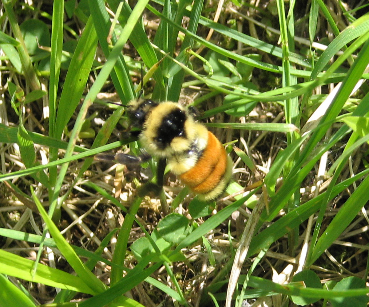 Orange-belted Bumble Bee (Bombus ternarius), Mer Bleue Conservation Area, Ottawa, Ontario, Canada